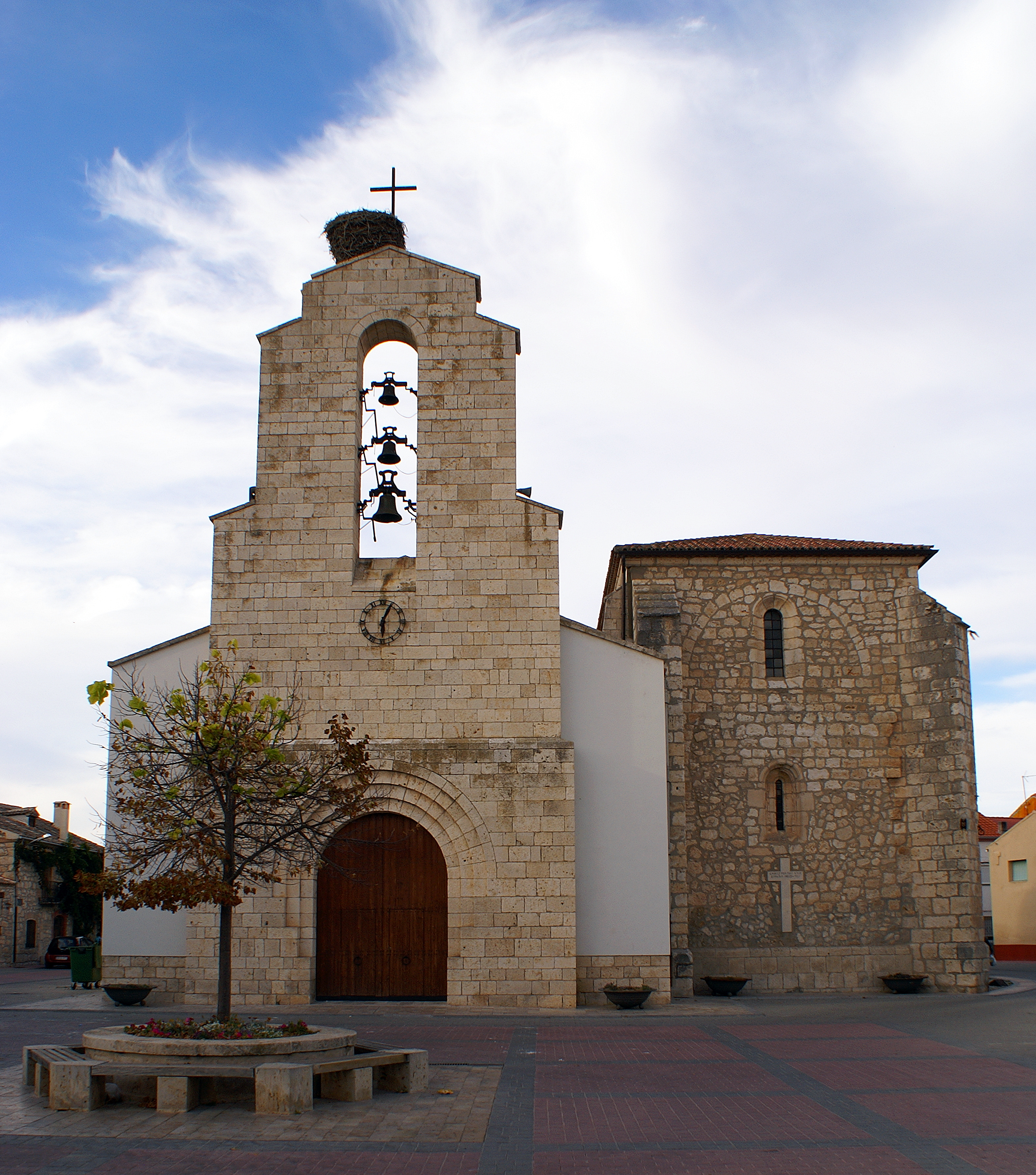 Church of St. Emilian in Quintanilla de Onésimo, Valladolid, Spain.